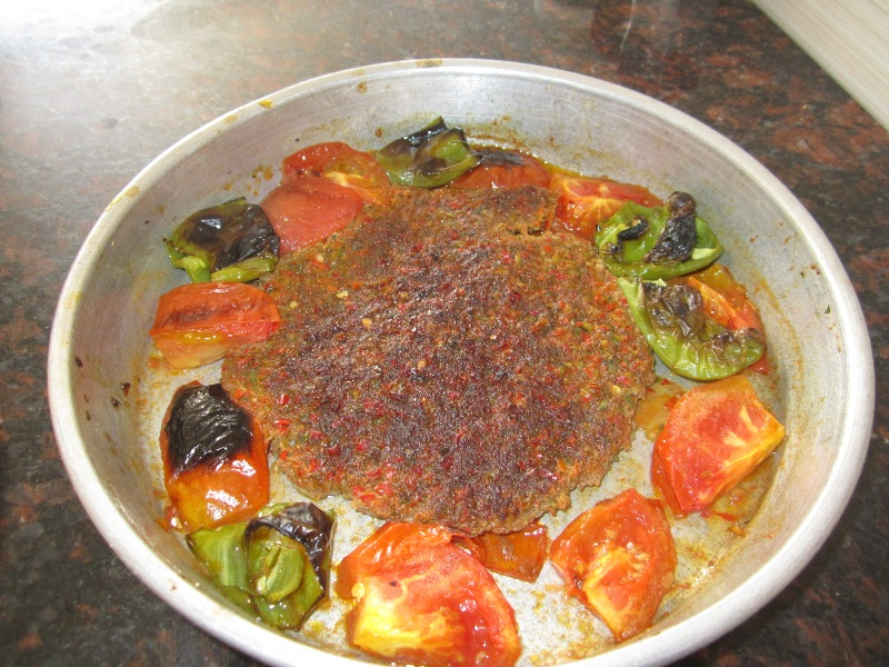 Kilis kebabı or "tepsi kebabı", a kind of Turkish kebab.